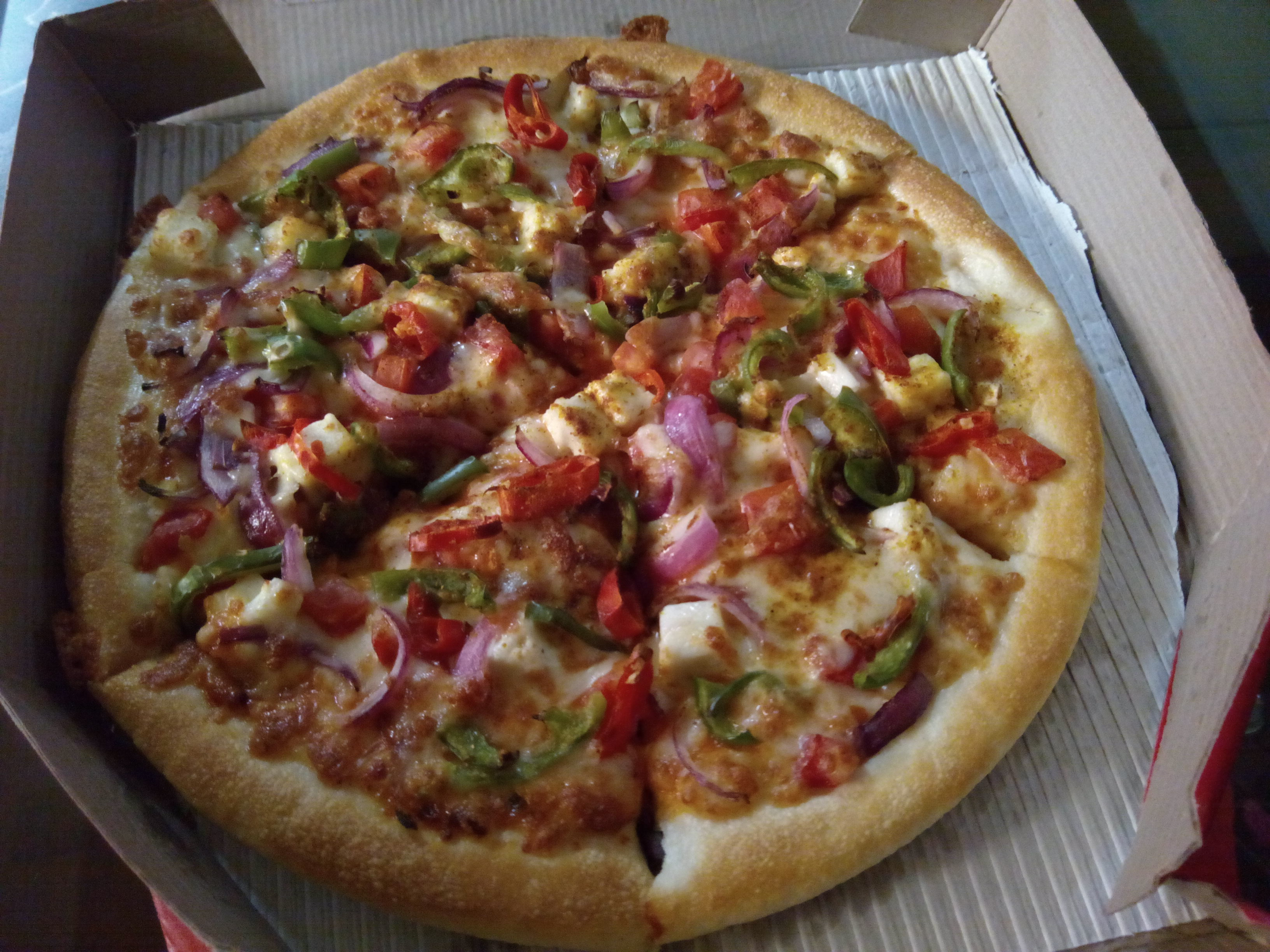 A Tandoori Paneer Pizza from India